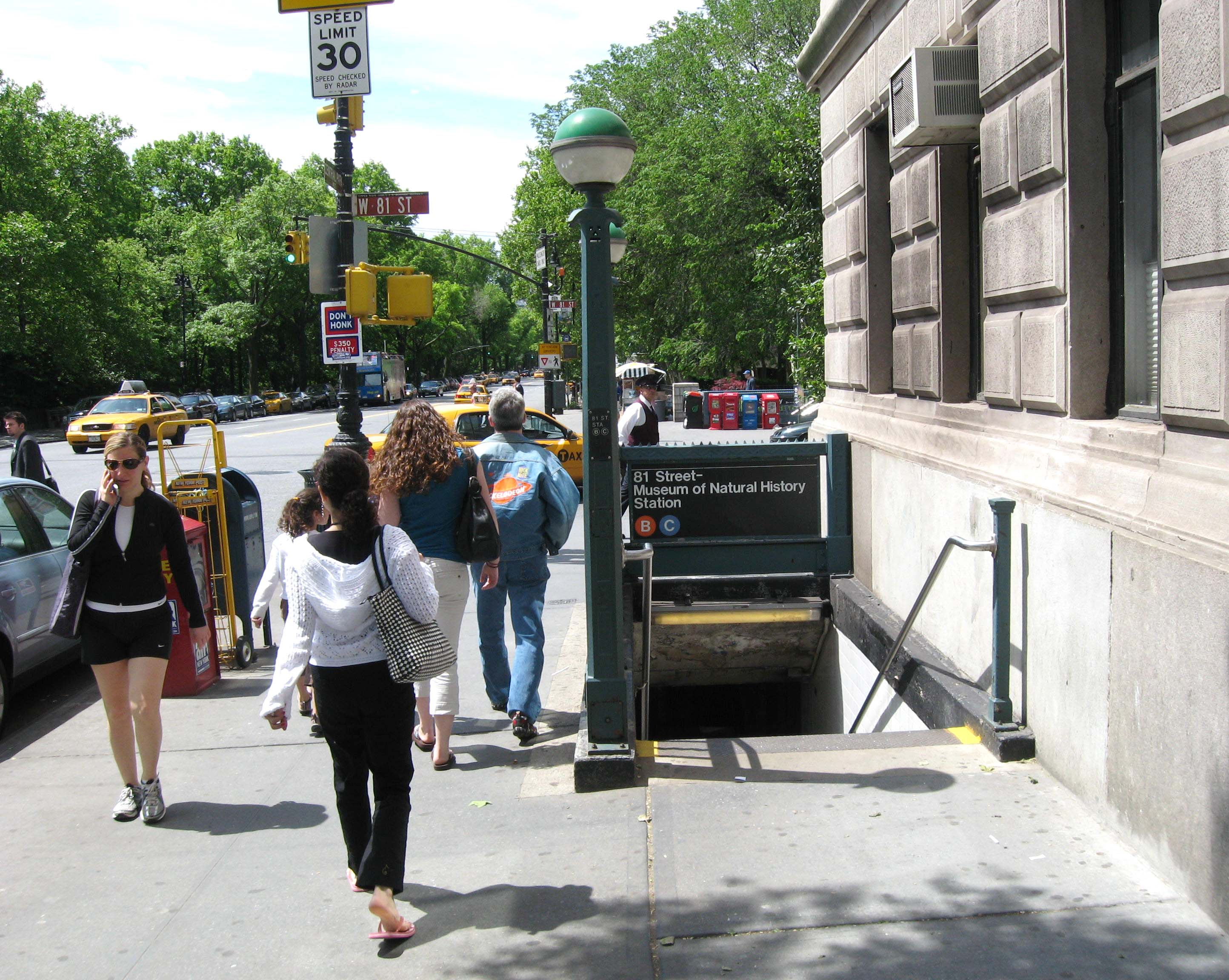 Looking south on CPW at 81st Street–Museum of Natural History (IND Eighth Avenue Line) stair on a sunny late morning.